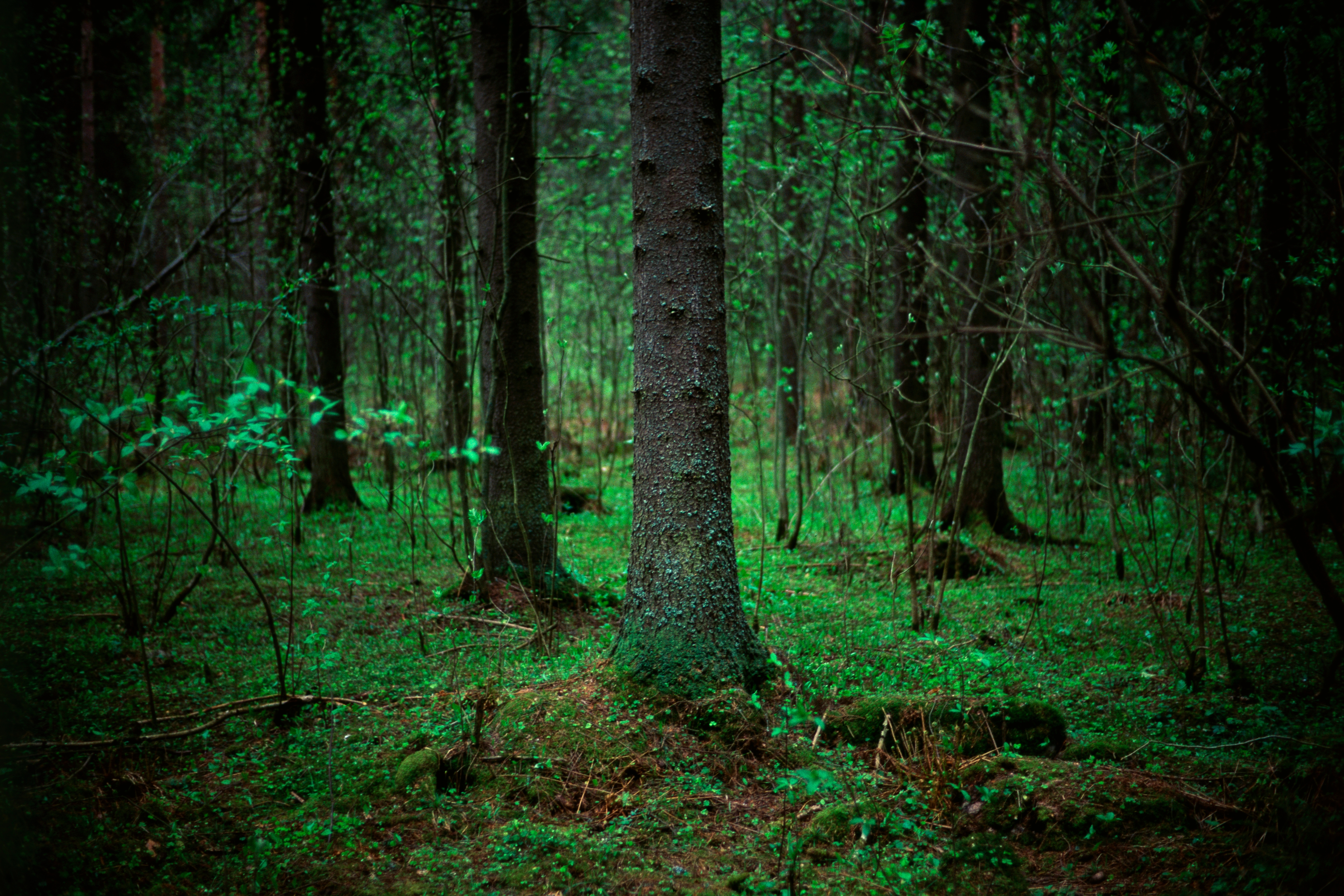 Forest in Kuopio, Finland